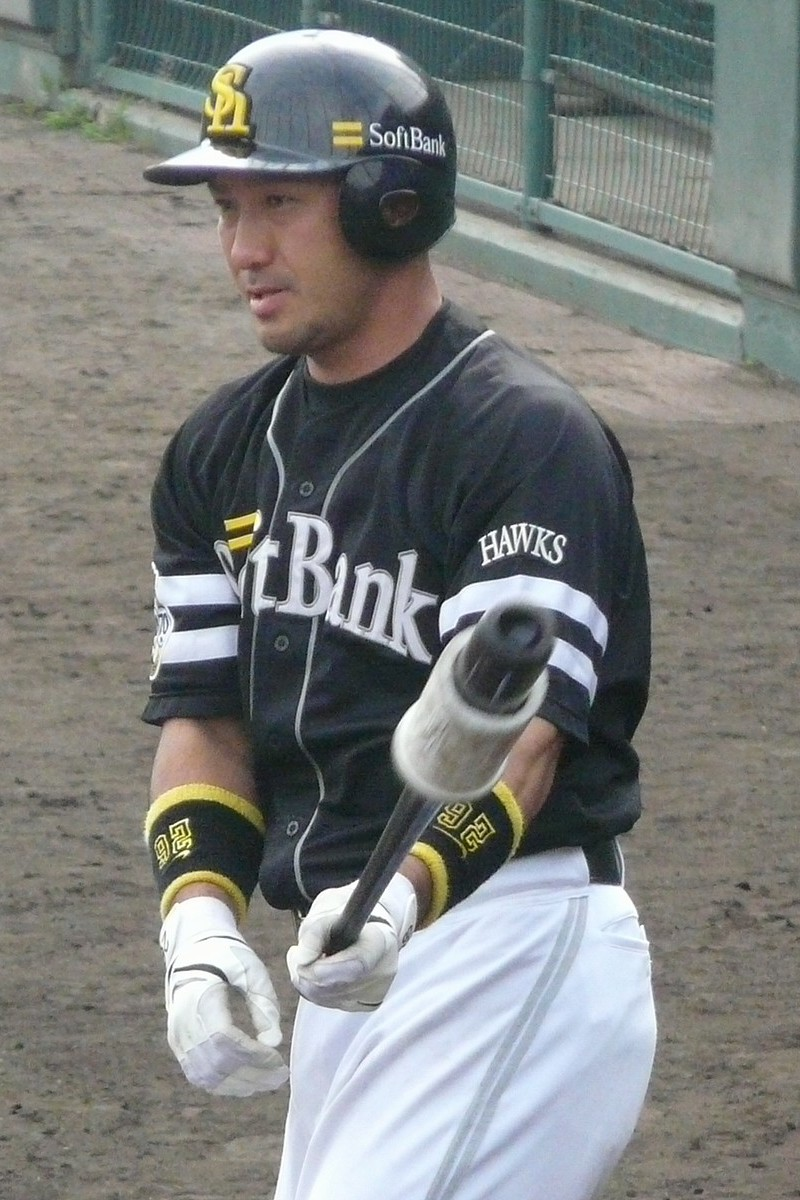 Naoki Matoba, catcher of the Fukuoka SoftBank Hawks, at Hanshin Naruohama Baseball Ground.